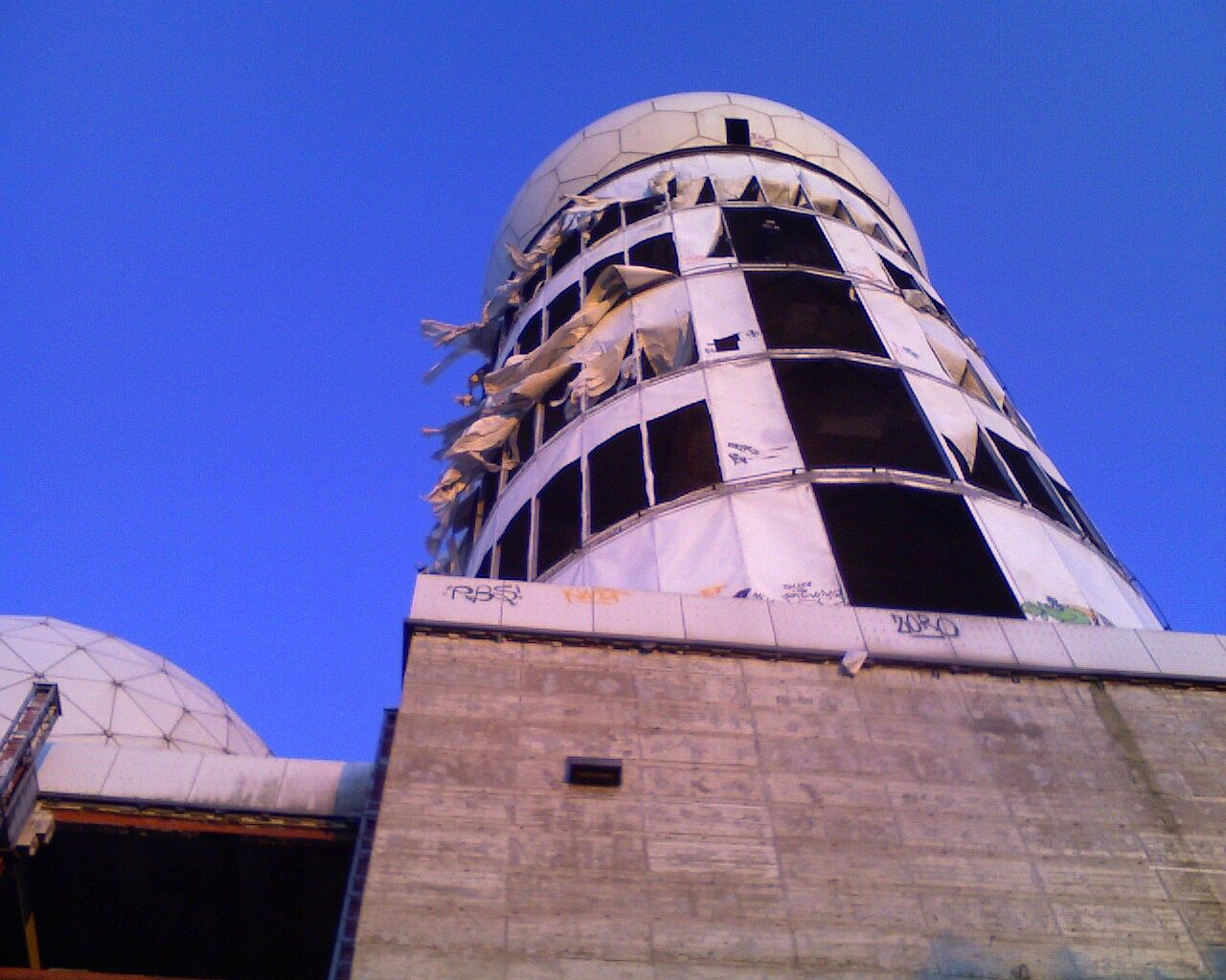 Teufelsberg Berlin. Biggest NSA Radar Tower, suffering from weather and vandalism.